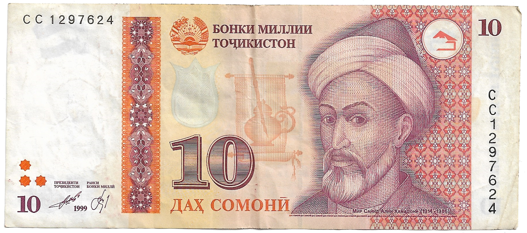 10 сомонӣТоҷикӣ: 10 сомонии тоҷикистонӣ (тоҷикӣ), соли 1999